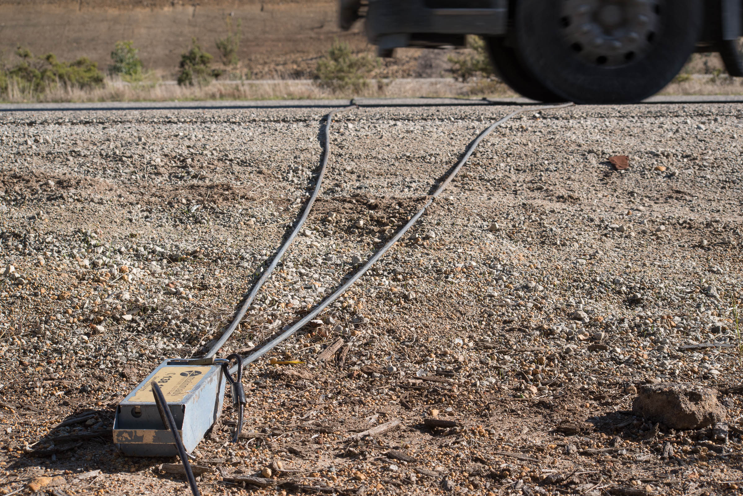 pneumatic traffic counter on Great Eastern Hwy, this one is counting the traffic that has passed through a COVID-19 checkpoint and its being triggered by a truck